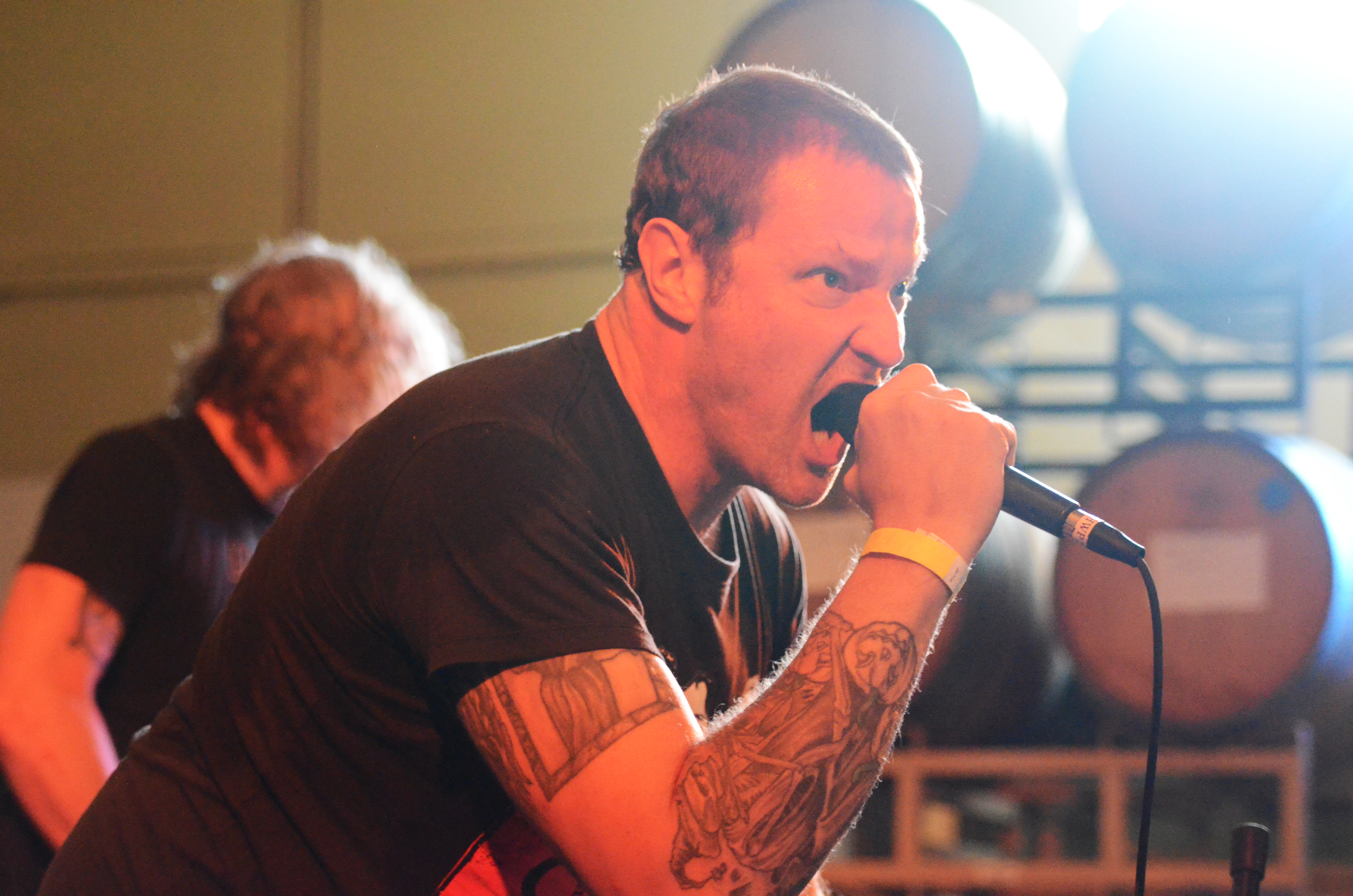 Published on